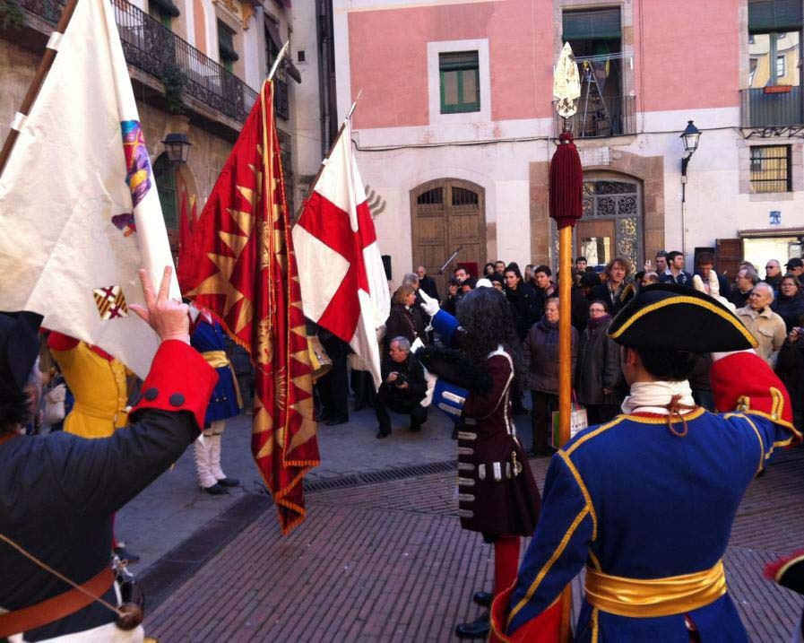 Miguelete Cultural Association of Catalonia. Reenactment of the oath of the flags of the Army of Catalonia 1713-1714.